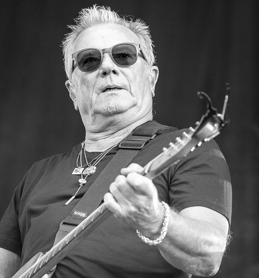 Åge Aleksandersen and Sambandet at the main stage during Stavernfestivalen in Stavern on 08. July 2016. Lineup:Åge Aleksandersen (guitar / vocal)Skjalg Raaen (guitar)Steinar Krokstad (drums)Morten Skaget (bass)Gunnar Pedersen (guitar)Terje Tranaas (keyboard)Bjørn Røstad (baritone saxophone)Unidentified (trumpet)Unidentified (trombone)Unidentified (tenor saxophone)